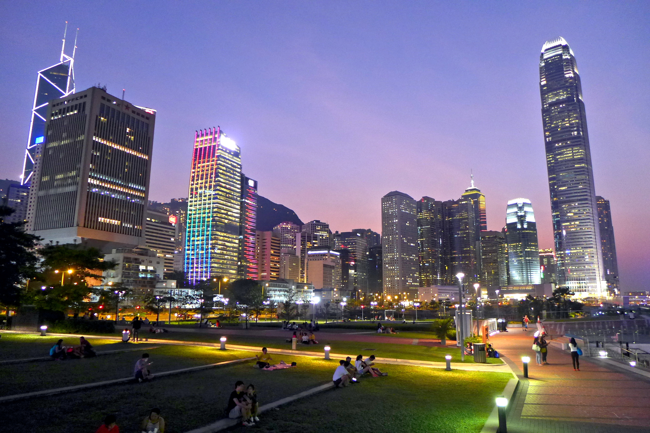 Central and Western District Promenade